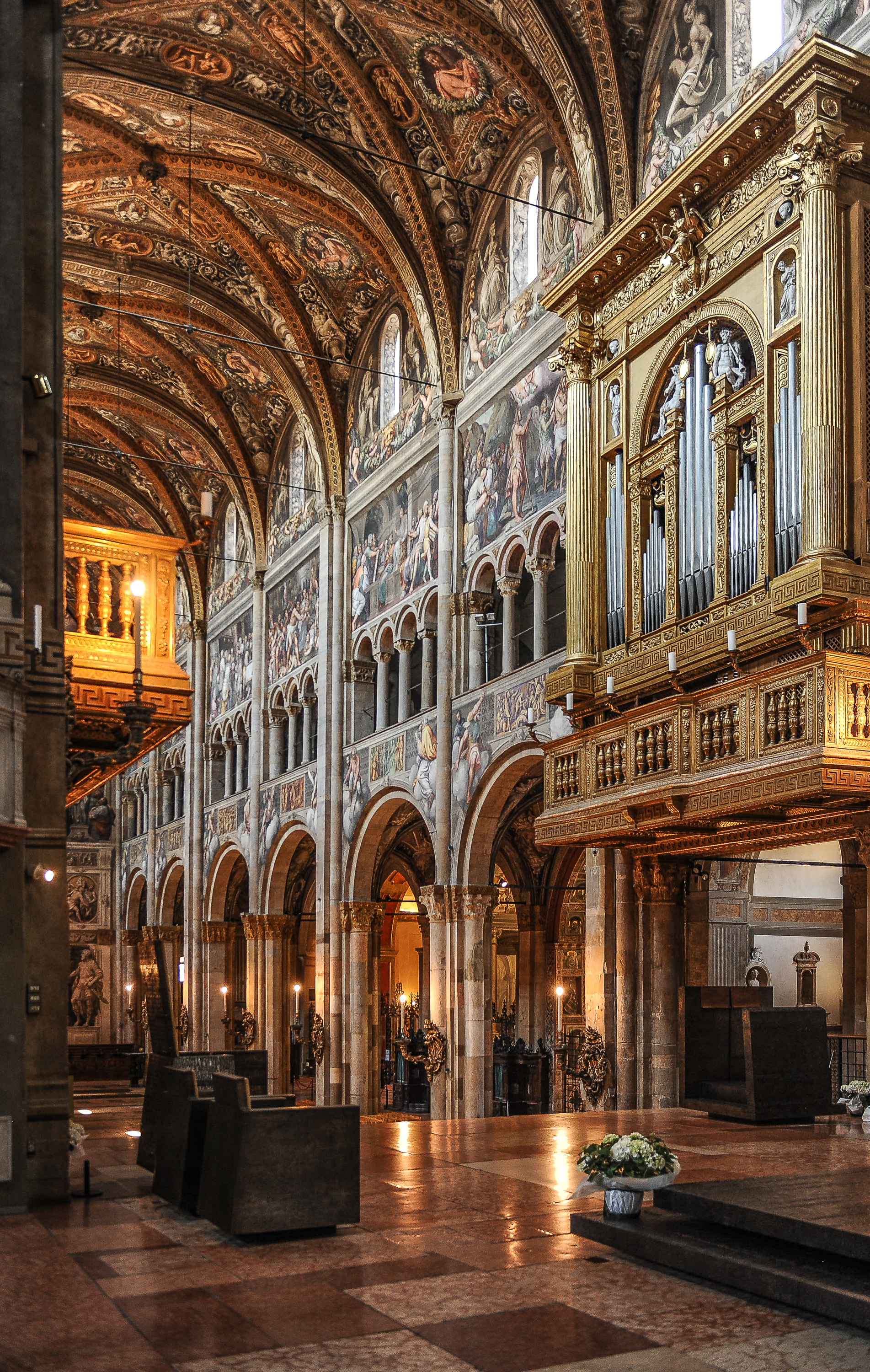 Cattedrale di Parma, Parma, Italy